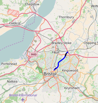 Map of Bristol with the M32 highlighted This map may be incomplete, and may contain errors. Don't rely solely on it for navigation.